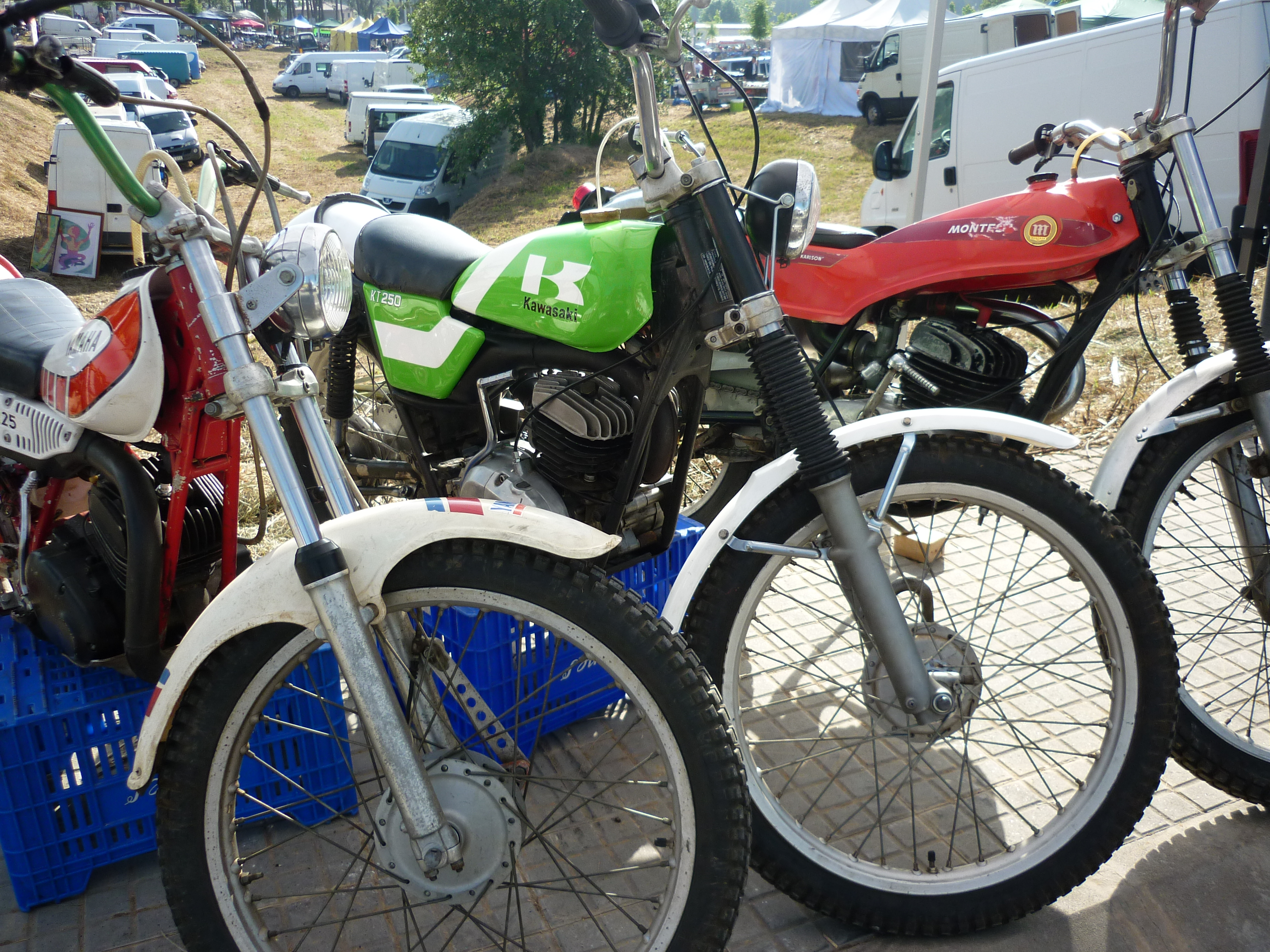 In green: Kawasaki KT 250, a model developed from 1972 on. This unit is by 1975.